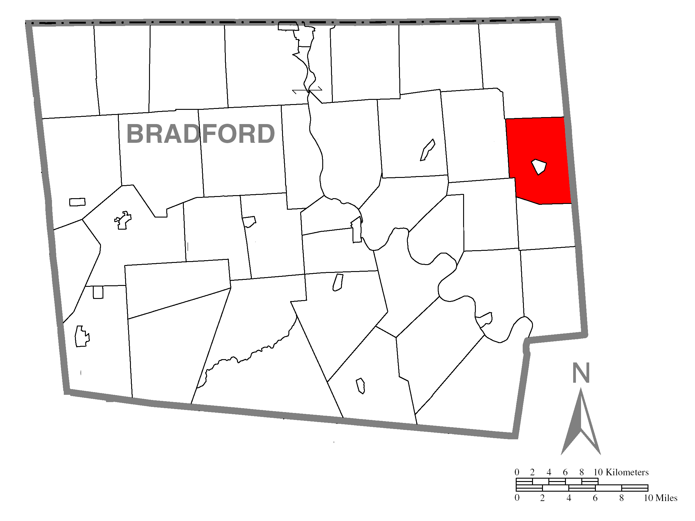 A map of Bradford County showing Pike Township, Pennsylvania (alternate) highlighted on the map.